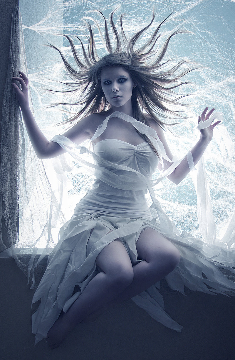 Banshee